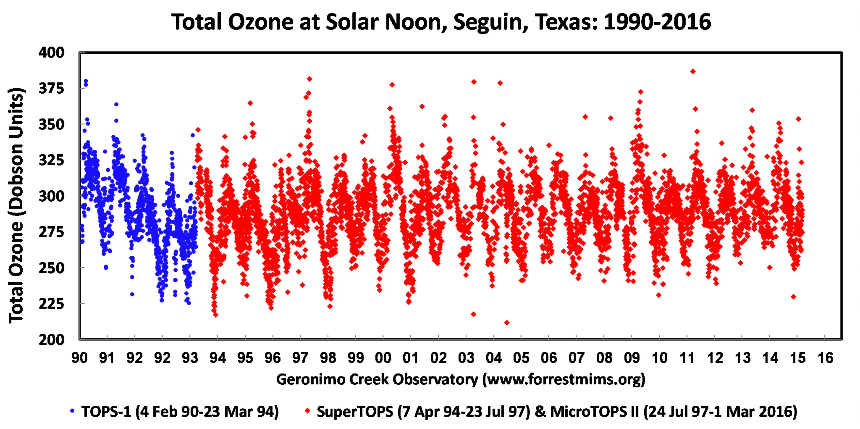 Total ozone (Dobson units) measured at solar noon at Geronimo Creek Observatory since 4 Feb 1990. Measurements conducted only when sun is open and free of clouds. Instruments checked against Dobson 76 and Brewers 009 and 119 at the Mauna Loa Observatory each year since 1992.